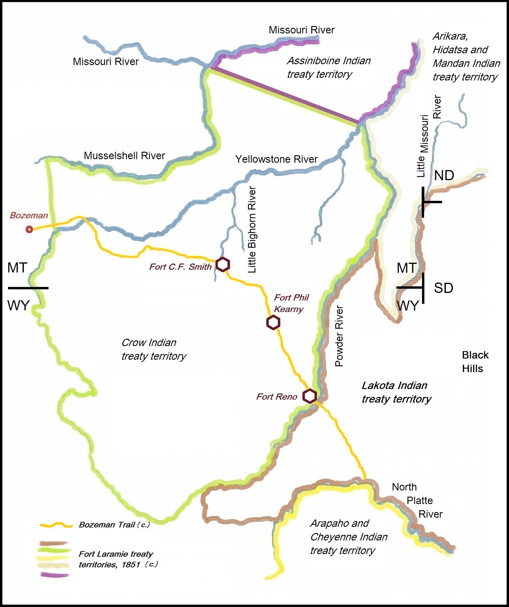 Bozeman Trail, Fort C.F. Smith, Fort Phil Kearny and Fort Reno and relevant Indian territories of 1851, (Assiniboine, Crow. Partly Lakota, Arikara, Hidatsa, Mandan, Cheyenne and Arapaho)